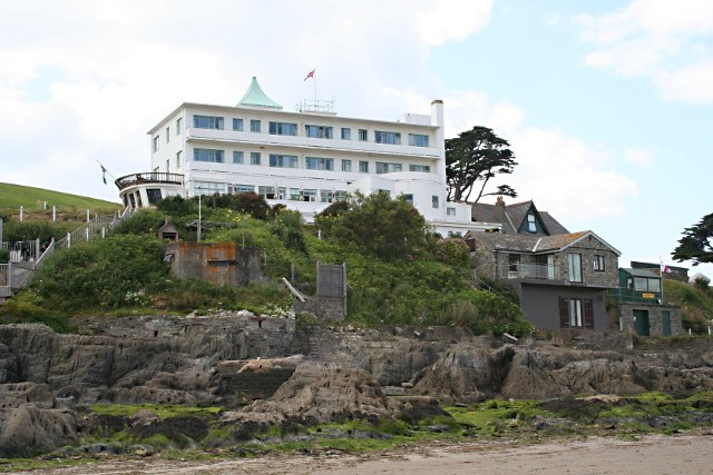 Burgh Island Hotel on Burgh Island, near to Bigbury-on-Sea, Devon, England.